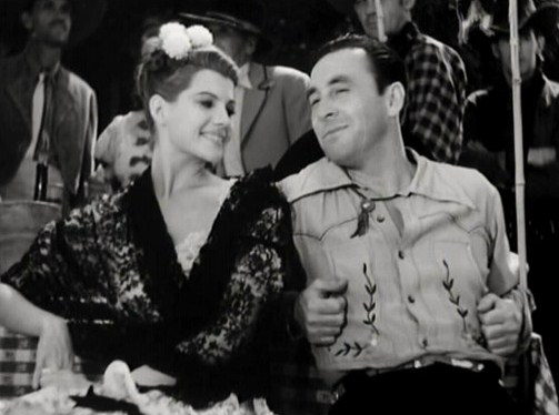 Rita Hayworth and George O'Brien in The Renegade Ranger (1938) - cropped screenshot